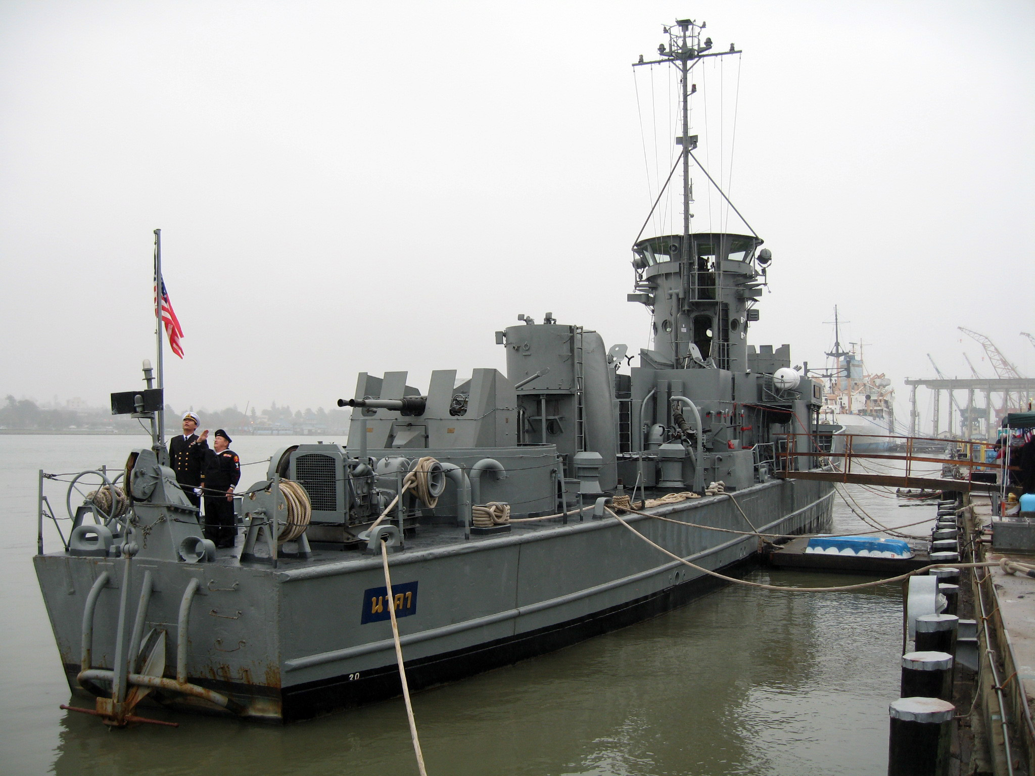 VALLEJO, Calif. (Nov. 10, 2007) Former Signalman 3rd Class Gilbert Nadeau and Royal Thai Navy Lt. Sathaporn Thassanaleelaporn raise the flag on the USS LCS(L) 102. LCS 102 is the last remaining ship of the landing craft support (large) class, a once common U.S fire-support landing craft class used in World War II. At a ceremony at Mare Island Historic Park, the ship was formally turned over to the National Association of LCS from the Royal Thai Navy, where it served as a coastal patrol vessel for more than 30 years. Nadeau is a former LCS Sailor and Sathaporn is the last commanding officer of ship while it was in service with the Royal Thai Navy.